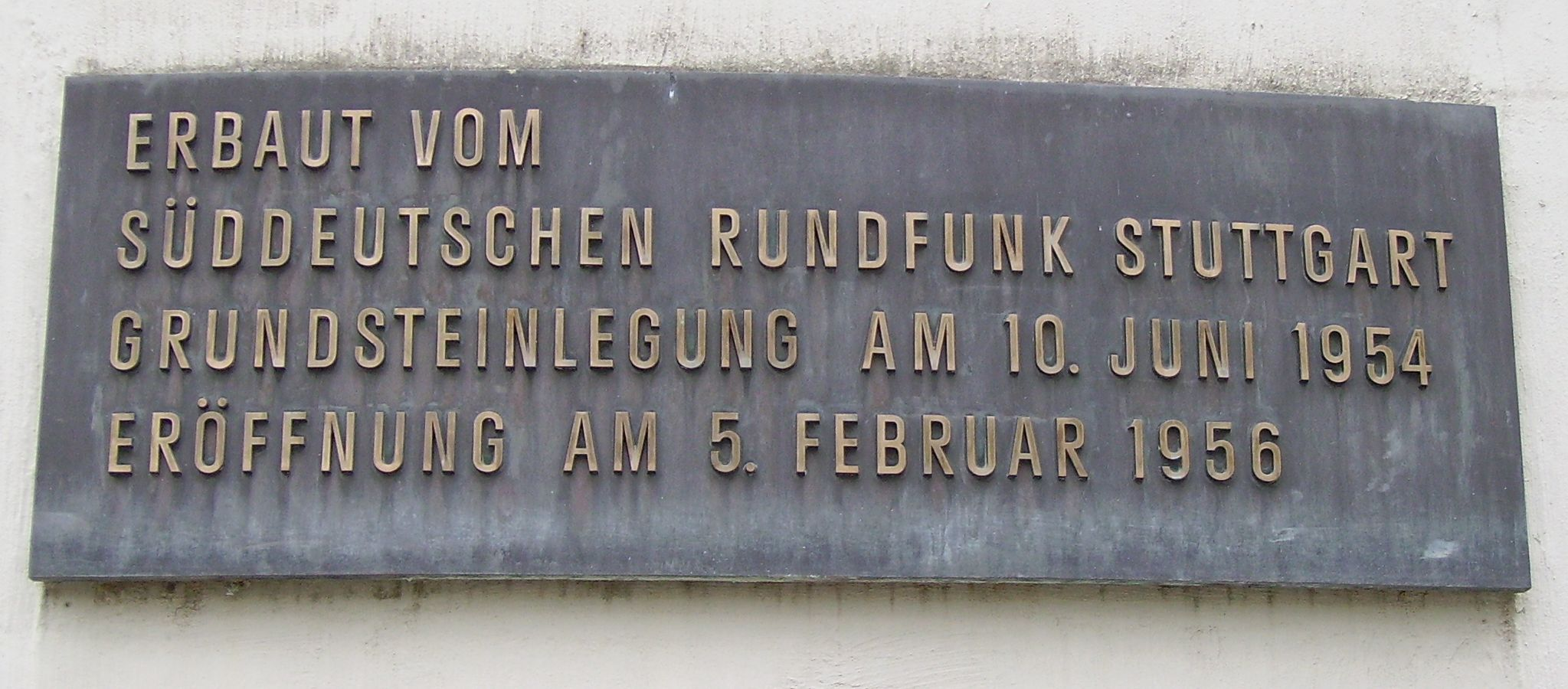 Commemorial plaque at the base of the television tower in Stuttgart, Germany.